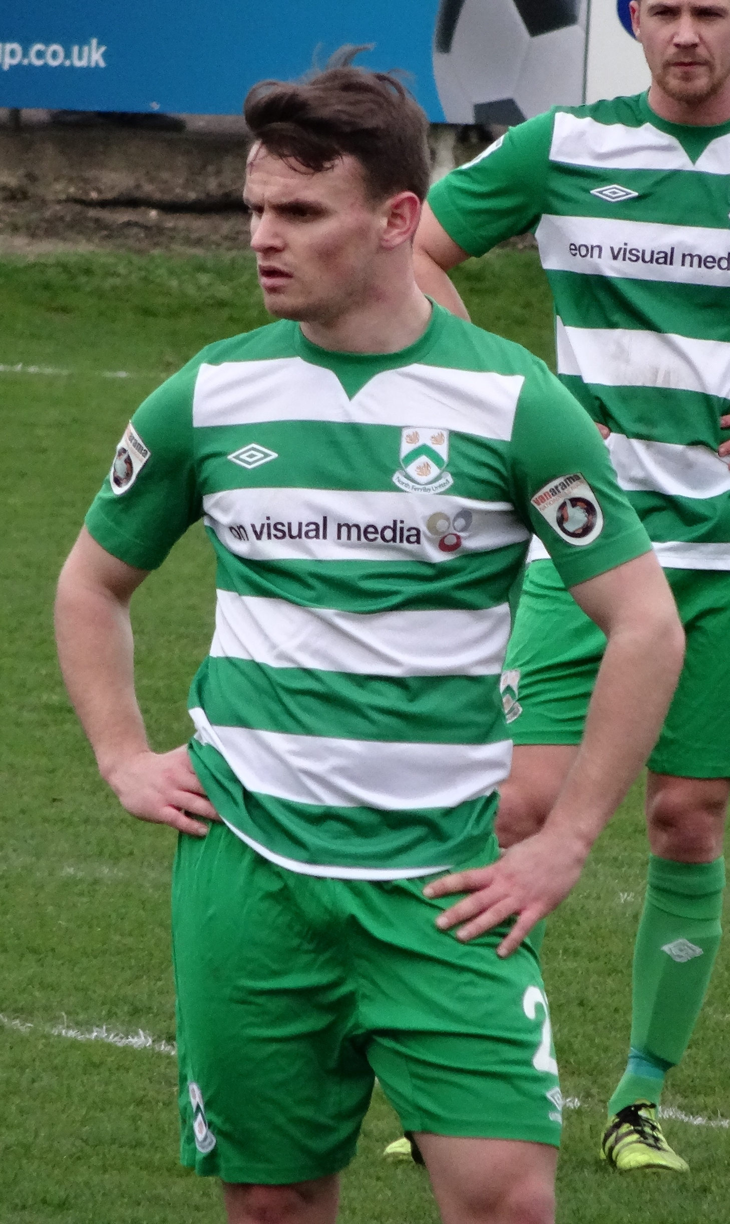 Matty Dixon playing for North Ferriby United against Solihull Moors at Grange Lane, North Ferriby on 18 March 2017